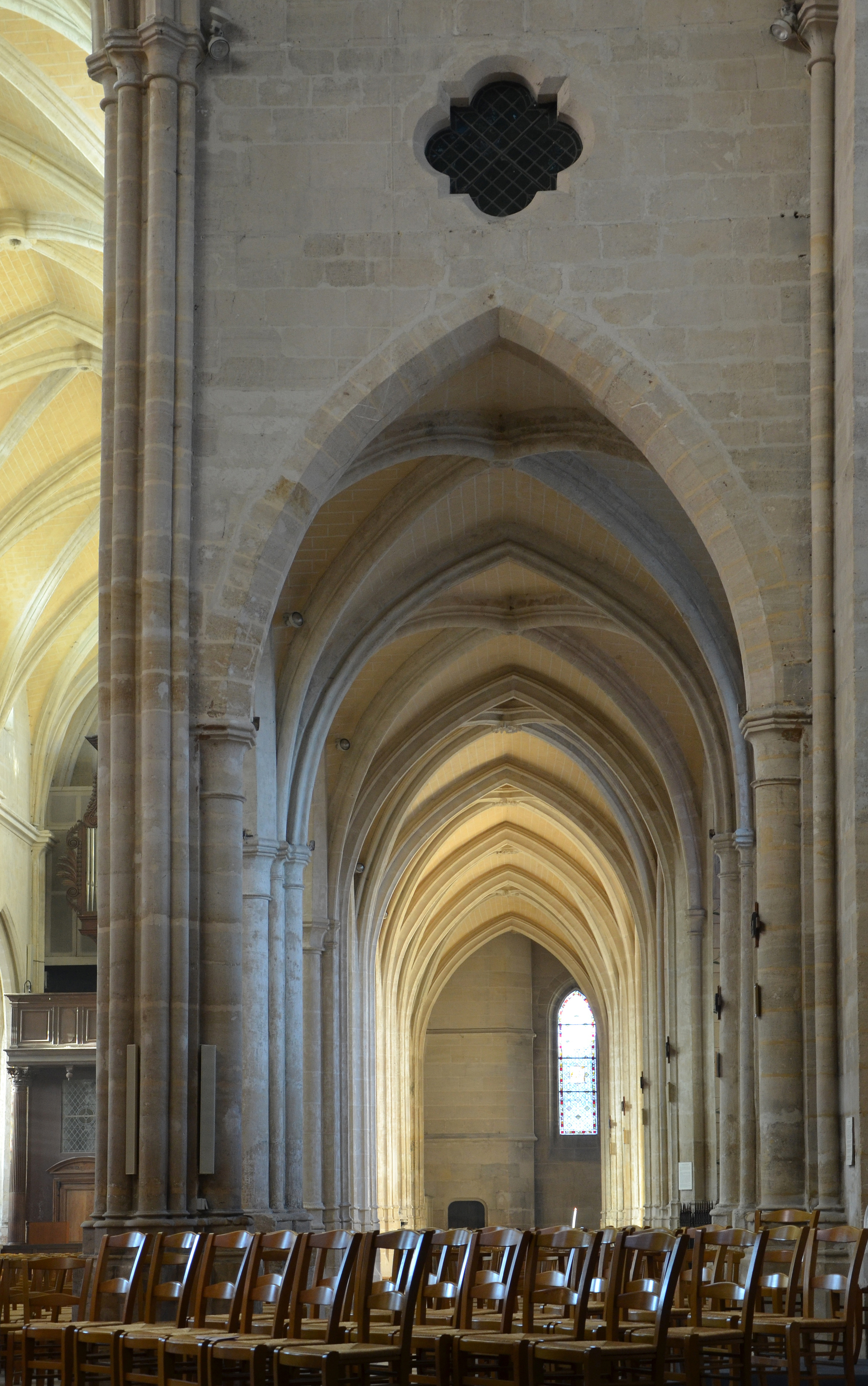 Church Saint-Antoine in Compiègne, Oise, Picardie, France